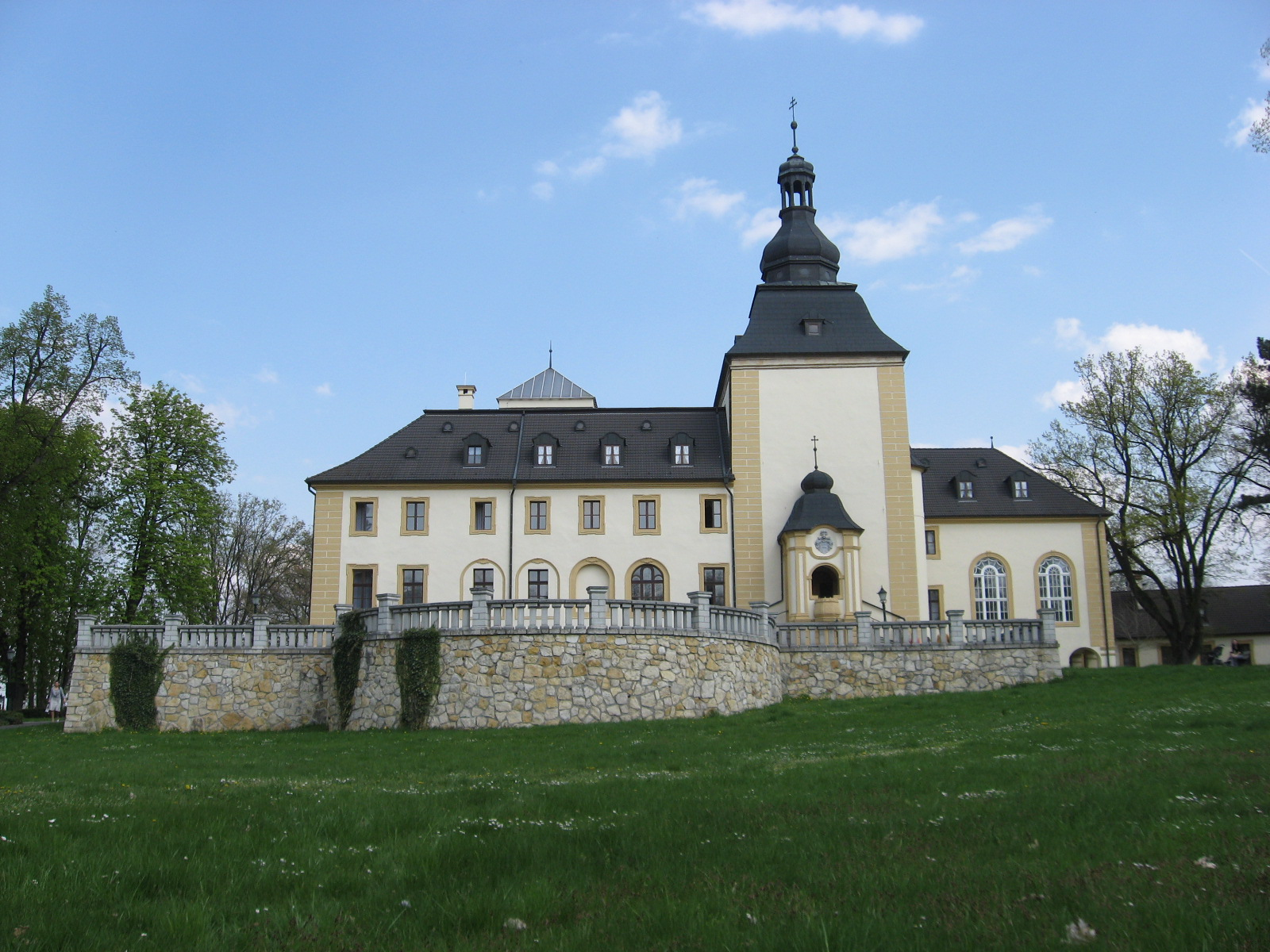 Kamień Śląski. Zamek Odrowążów w Kamieniu Śląskim, Kamień Śląski.